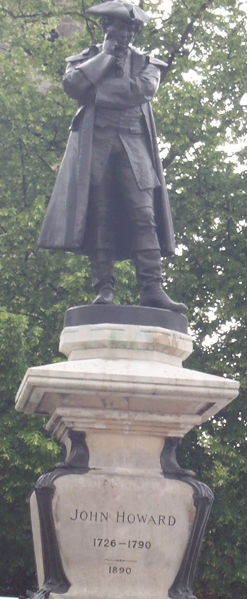 Bronze statue of John Howard, the prison reformer, in Bedford, England. It is at the other end of the High Street to the statue of John Bunyan. It was erected in 1894, the sculptor was Alfred Gilbert (1854 - 1934).